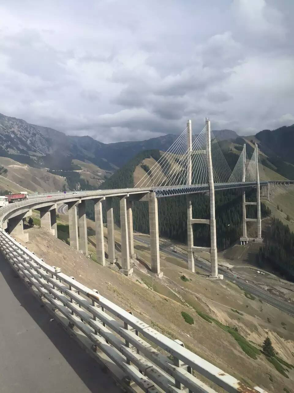 Guozigou Bridge in Xinjiang, China.